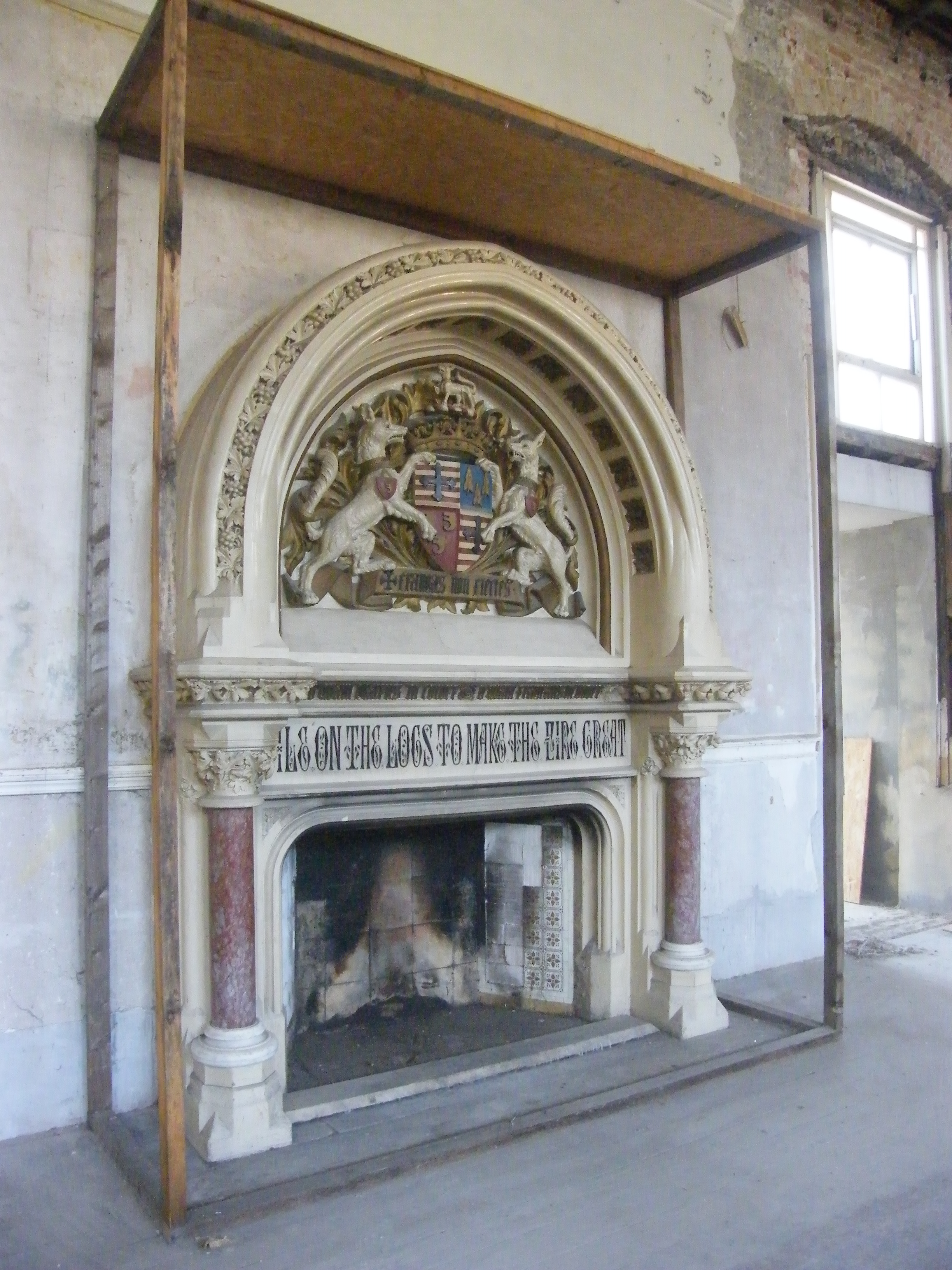 Edward Pugin`s fireplace inside Granville House. Supported on red marble columns with the mantel carved in Caen stone. It bears the Granville coat of arms and the motto - Pile on the logs to make the fire great. Circa 1869. Arms of Leveson-Gower, Earl Granville: Quarterly 1st & 4th barry of eight argent and gules a cross flory sable (Gower); 2nd: azure, three laurel leaves or (Leveson); 3rd: Gules, three clarions or (Granville) over all a crescent for difference (Debrett's Peerage, 1968, p.505)